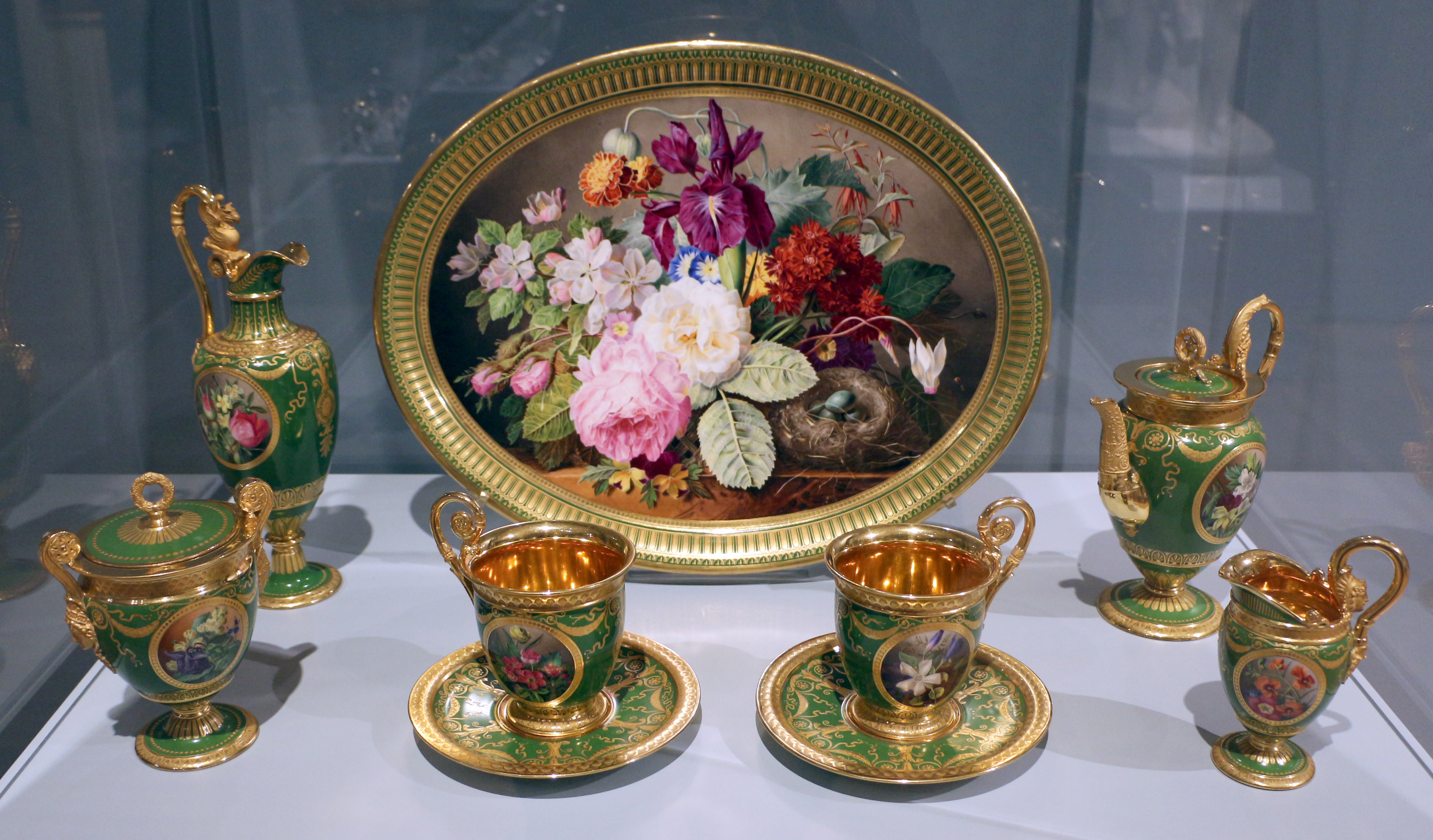 Ceramics in the Speed Art Museum